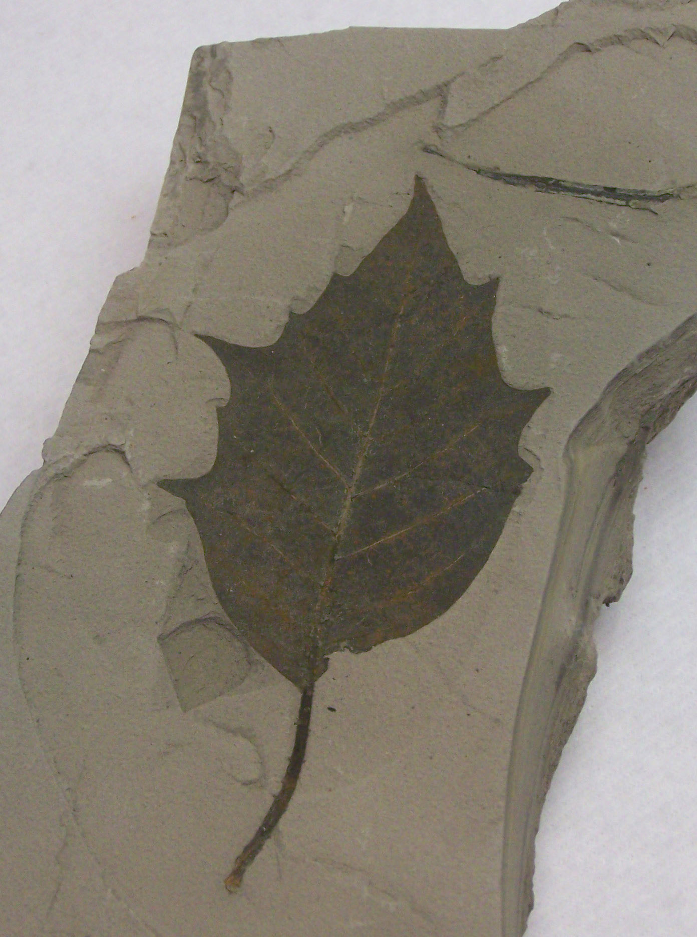 Fossil leaf of the pepperidge tree species Nyssa haidingeri, of Miocene age.